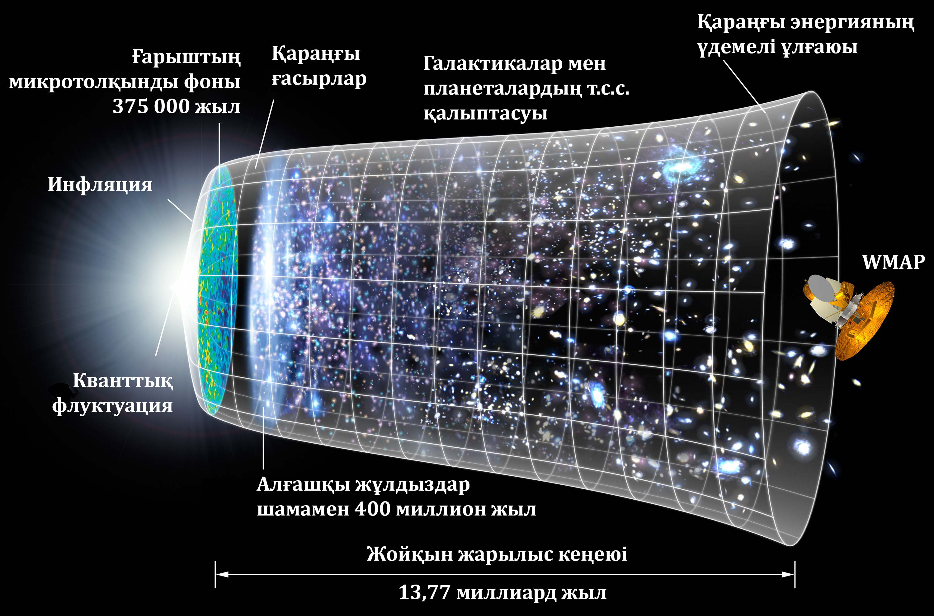 A representation of the evolution of the universe over 13.77 billion years. The far left depicts the earliest moment we can now probe, when a period of "inflation" produced a burst of exponential growth in the universe. (Size is depicted by the vertical extent of the grid in this graphic.) For the next several billion years, the expansion of the universe gradually slowed down as the matter in the universe pulled on itself via gravity. More recently, the expansion has begun to speed up again as the repulsive effects of dark energy have come to dominate the expansion of the universe. The afterglow light seen by WMAP was emitted about 375,000 years after inflation and has traversed the universe largely unimpeded since then. The conditions of earlier times are imprinted on this light; it also forms a backlight for later developments of the universe. (WMAP # 060915)